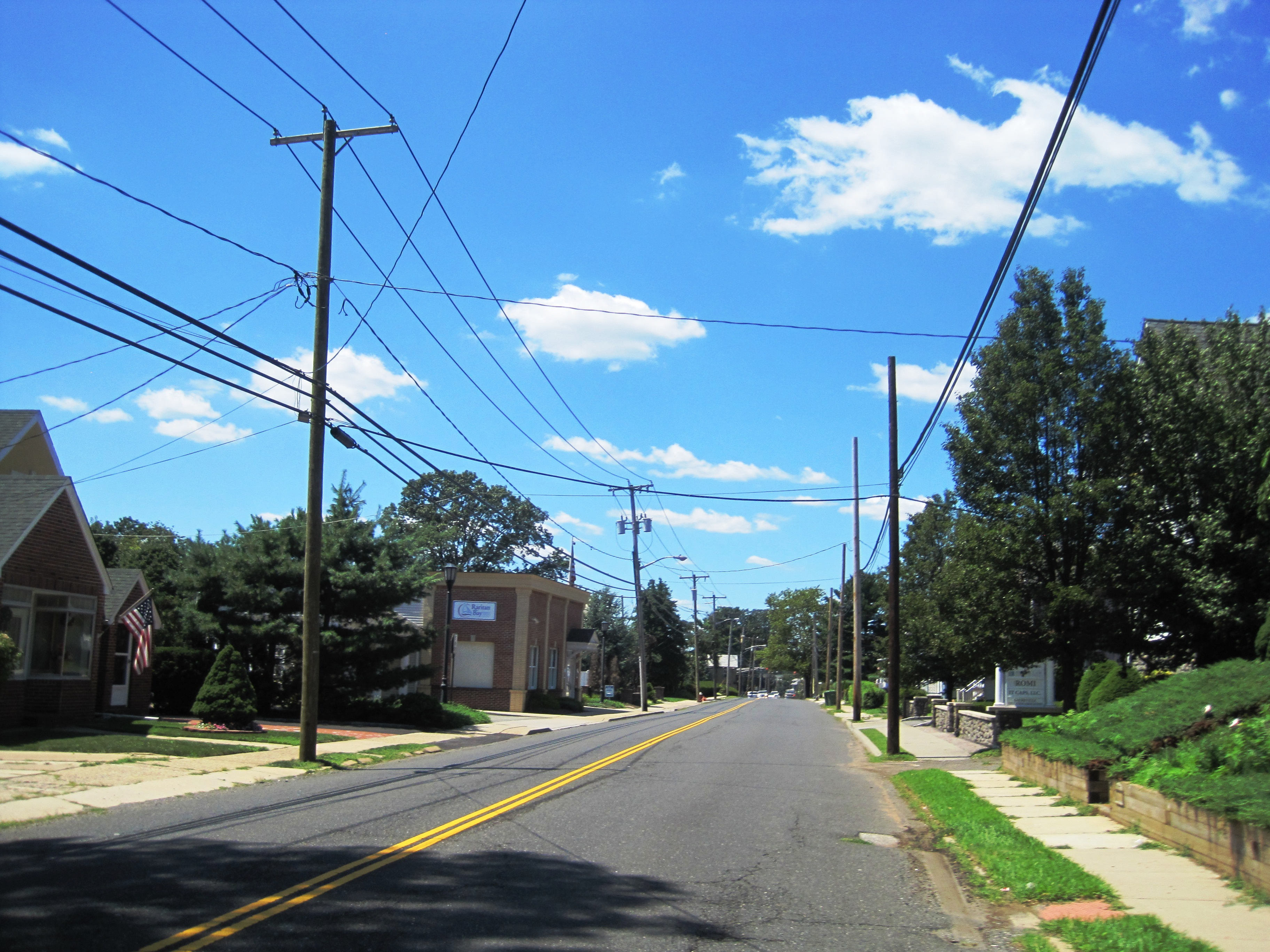 Photo showing Parlin, New Jersey, an unincorporated community within Sayreville. Photo taken along westbound Washington Road (southbound County Route 535) between Tannehill Lane and Dupont Street.